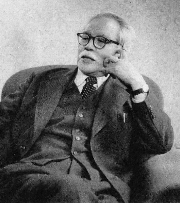 Yoshishige Abe